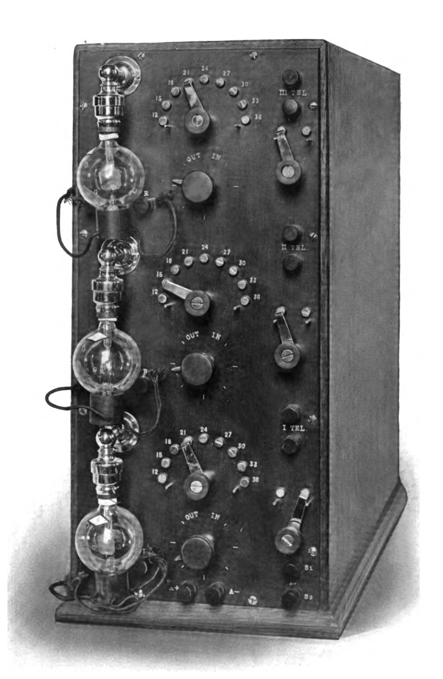 One of the first Audion amplifiers built by the inventor of the Audion vacuum tube, Lee De Forest, around 1914. The Audion, the first triode, was the first electronic tube that was able to amplify. Although invented in 1906, the amplifying ability of the Audion was not recognized until 1911-1912, so this was one of the first amplifiers. It appears in a paper by De Forest demonstrating to his fellow engineers that the Audion was not just a radio detector but also had the ability to amplify a signal. This is a three-stage transformer coupled audio amplifier. The Audion bulbs are visible on the front. Audions were always mounted upside-down, with the fragile filament loop hanging down, to prevent it from sagging when hot and touching the grid. Next to each tube are two rotary switches, one to control the filament current and one the plate voltage. The plate voltage between 15 and 40 volts, had to be carefully controlled. The primitive Audion was not completely evacuated, but had some gas in the tube, so if the plate voltage exceeded about 40 volts the gas would break down and ionize, emitting a "blue glow" discharge; which could damage the tube. The tube had a voltage gain of up to 5, so this amplifier had a maximum gain of about 125.